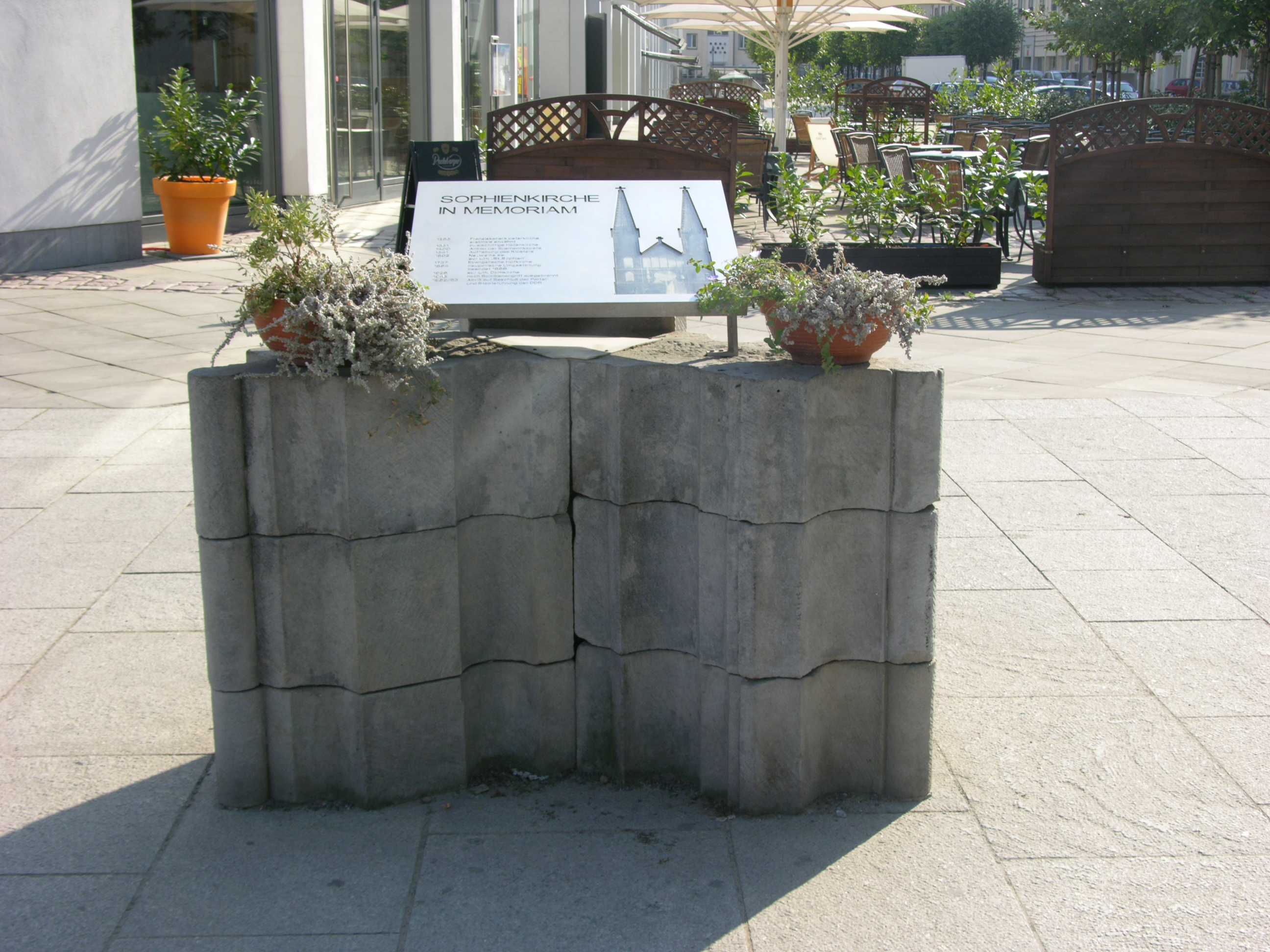 Memorial of the Sophienkirche in Dresden (Germany)